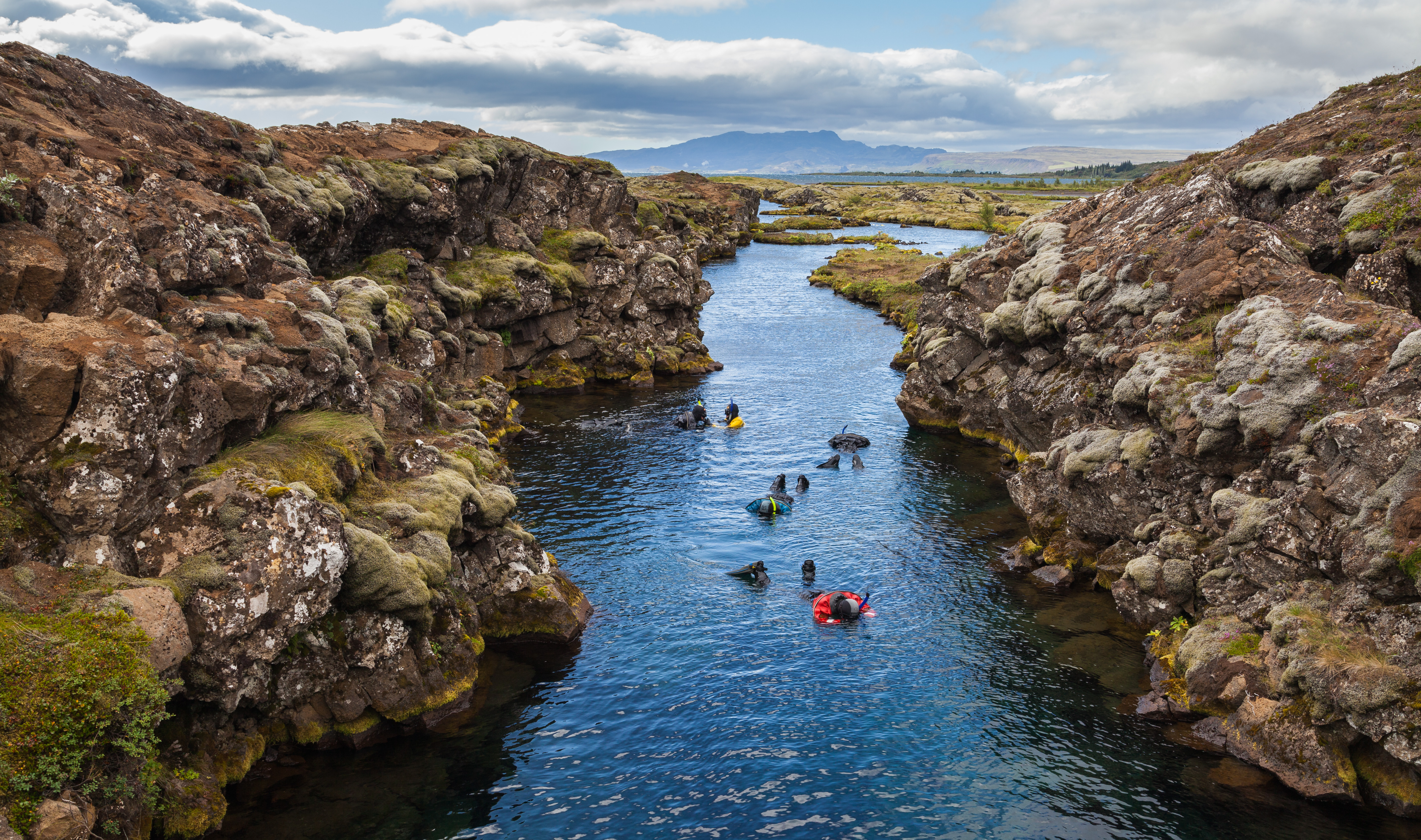 Snorkeling in the Silfra canyon, a rift between the tectonic plates (North American and Eurasian), Þingvellir National Park, Southern Region, Iceland.